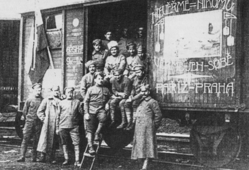 Wagon train Czechoslovak legions in Russia